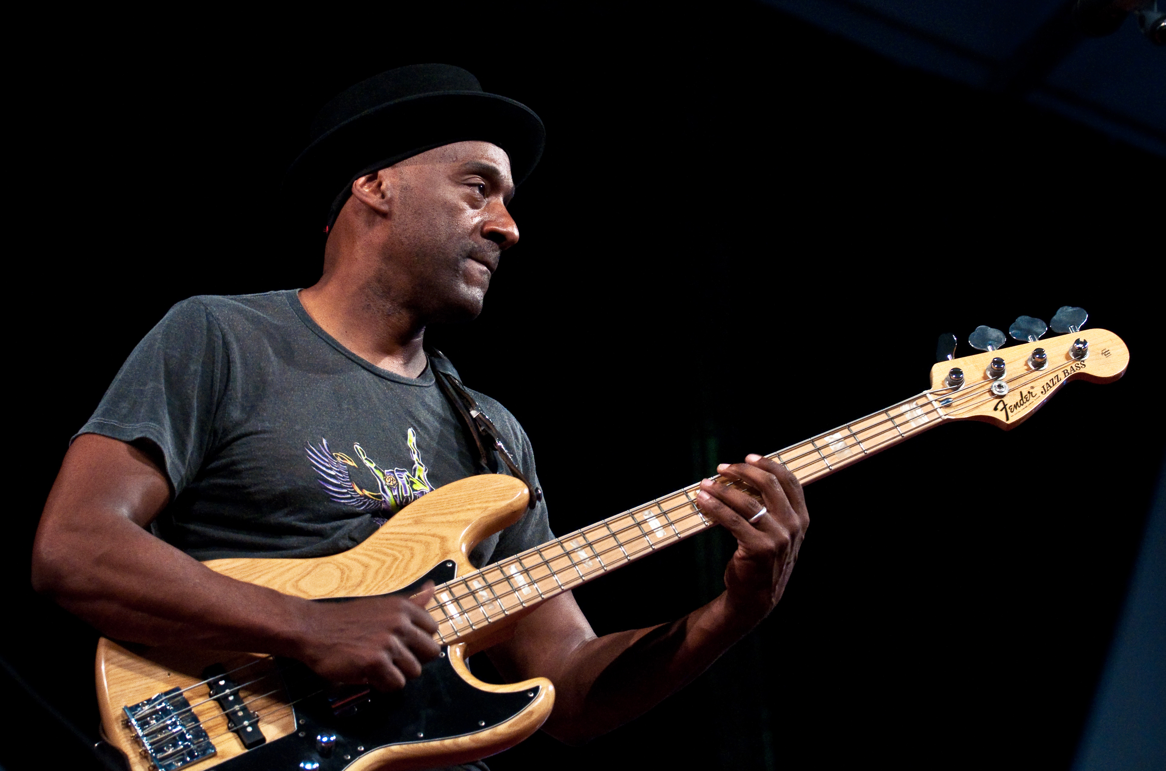 Marcus Miller at New Orleans Jazz Fest